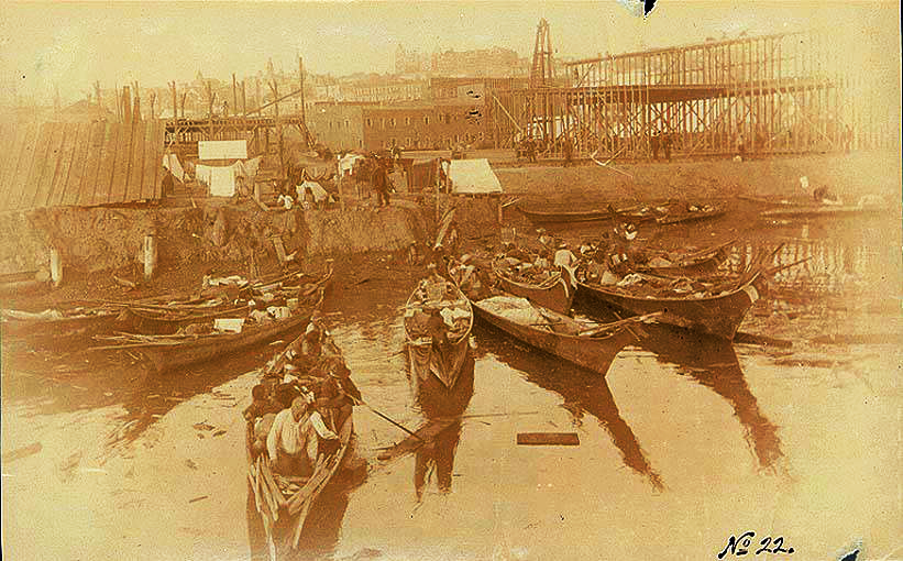 PH Coll 34.6a Also in PH Coll 277.BBS20 Subjects (LCTGM): Canoes--Washington (State)--Seattle Subjects (LCSH): Indians of North America--Washington (State)--Seattle; Washington Street (Seattle, Wash.) Given the locations of Providence Hospital, the Central School, etc. the view is looking to the northeast.